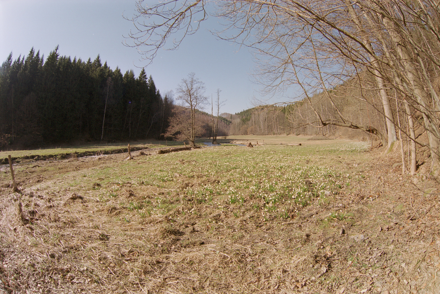 spring snowflakes (Leucojum vernum) in the Polenztal in Germany